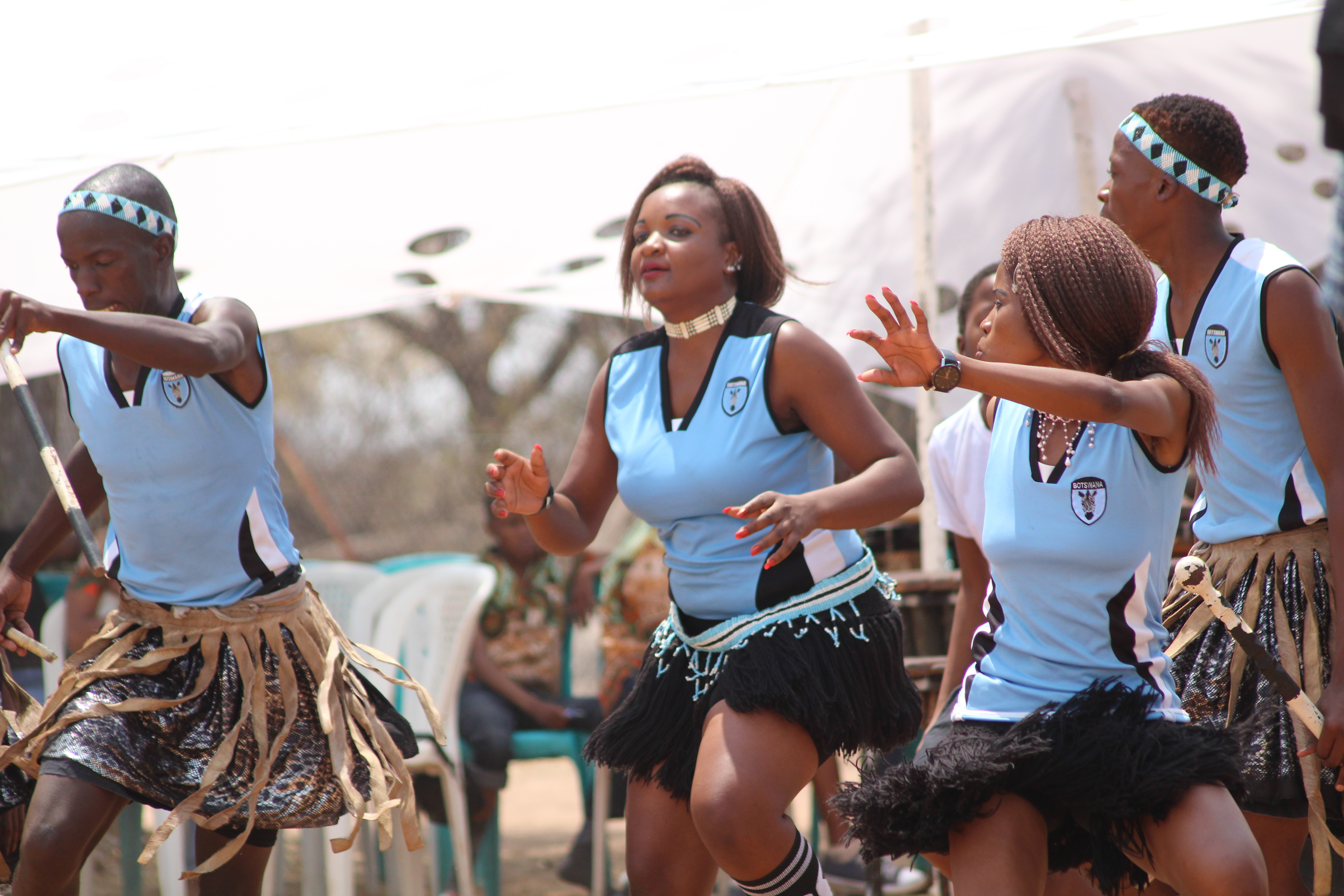 Dihosana (a36)